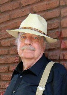 Gene Younglood, Oct. 31, 2012, in San Telmo, Buenos Aires, Argentina. Photo by Jane Youngblood.